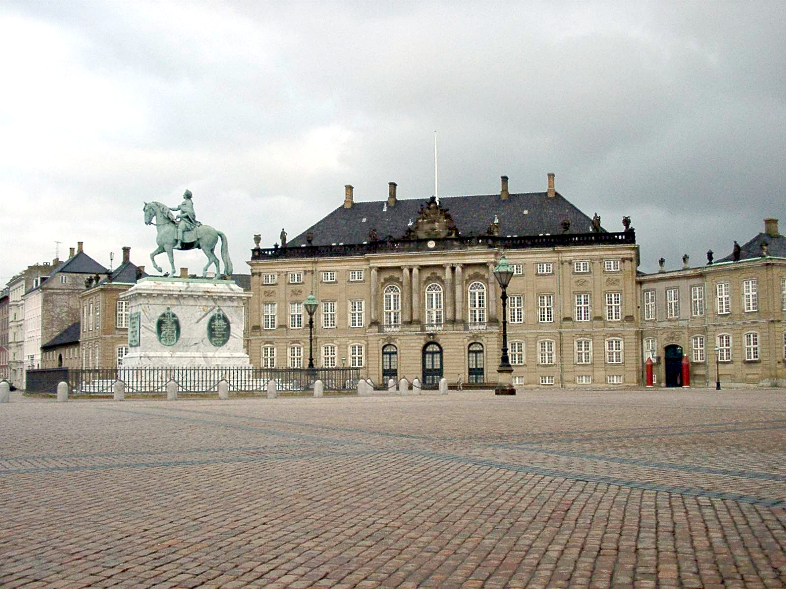 Amalienborg Castle, Copenhagen Photo: Wolfgang Hägele Source: own photo Date: 25.11.2003